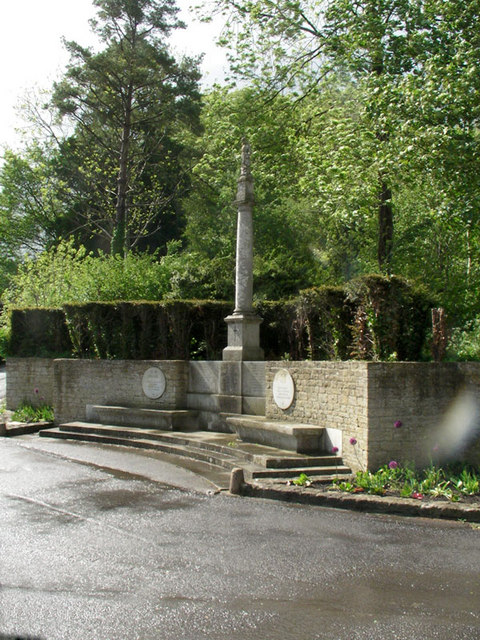 Mells War Memerial Said to be designed by Sir Edwin Lutyens